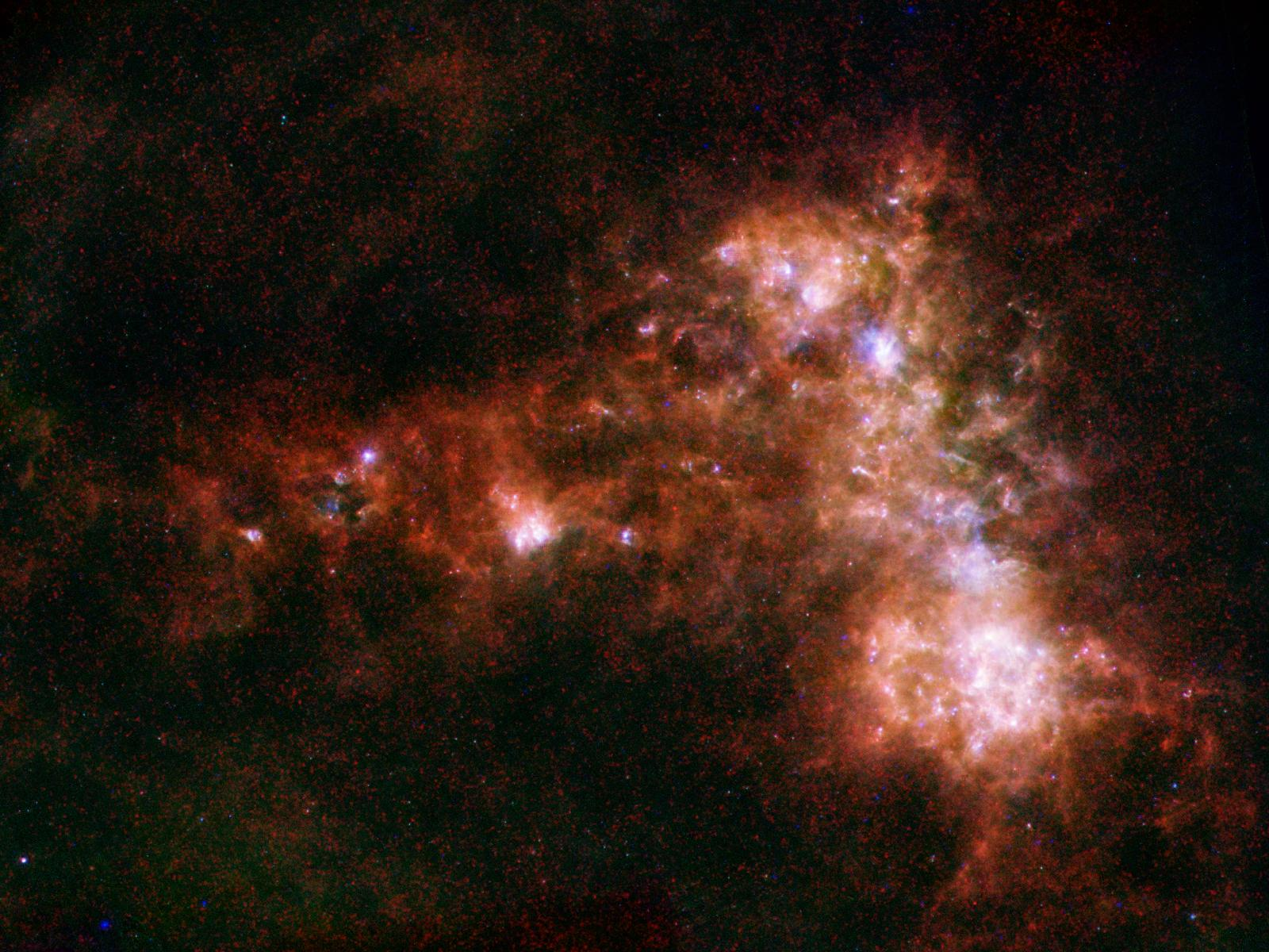 This new image shows the Small Magellanic Cloud galaxy in infrared light from the Herschel Space Observatory a European Space Agency-led mission with important NASA contributions, and NASA’s Spitzer Space Telescope. The Large and Small Magellanic Clouds are the two biggest satellite galaxies of our home galaxy, the Milky Way, though they are still considered dwarf galaxies compared to the big spiral of the Milky Way. In combined data from Herschel and Spitzer, the irregular distribution of dust in the Small Magellanic Cloud becomes clear. A stream of dust extends to the left in this image, known as the galaxy's "wing," and a bar of star formation appears on the right. The colors in this image indicate temperatures in the dust that permeates the Cloud. Colder regions show where star formation is at its earliest stages or is shut off, while warm expanses point to new stars heating surrounding dust. The coolest areas and objects appear in red, corresponding to infrared light taken up by Herschel's Spectral and Photometric Imaging Receiver at 250 microns, or millionths of a meter. Herschel's Photodetector Array Camera and Spectrometer fills out the mid-temperature bands, shown here in green, at 100 and 160 microns. The warmest spots appear in blue, courtesy of 24- and 70-micron data from Spitzer.